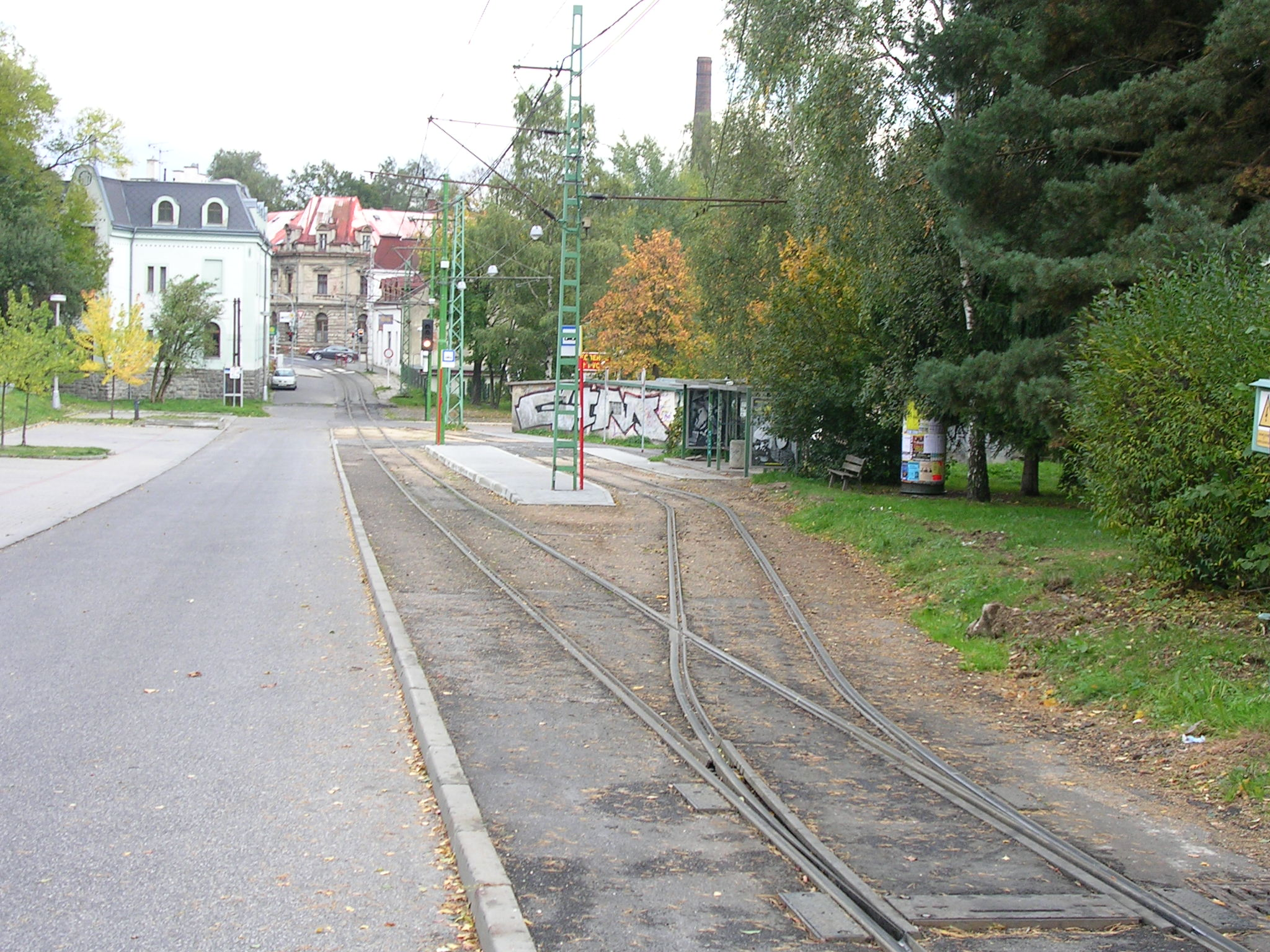 Tramway line between Liberec and Jablonec. Liberec, tram stop Lékárna. Česky: Tramvajová trať Liberec – Jablonec, Liberec, zastávka Lékárna. - OpenStreetMap(Info)